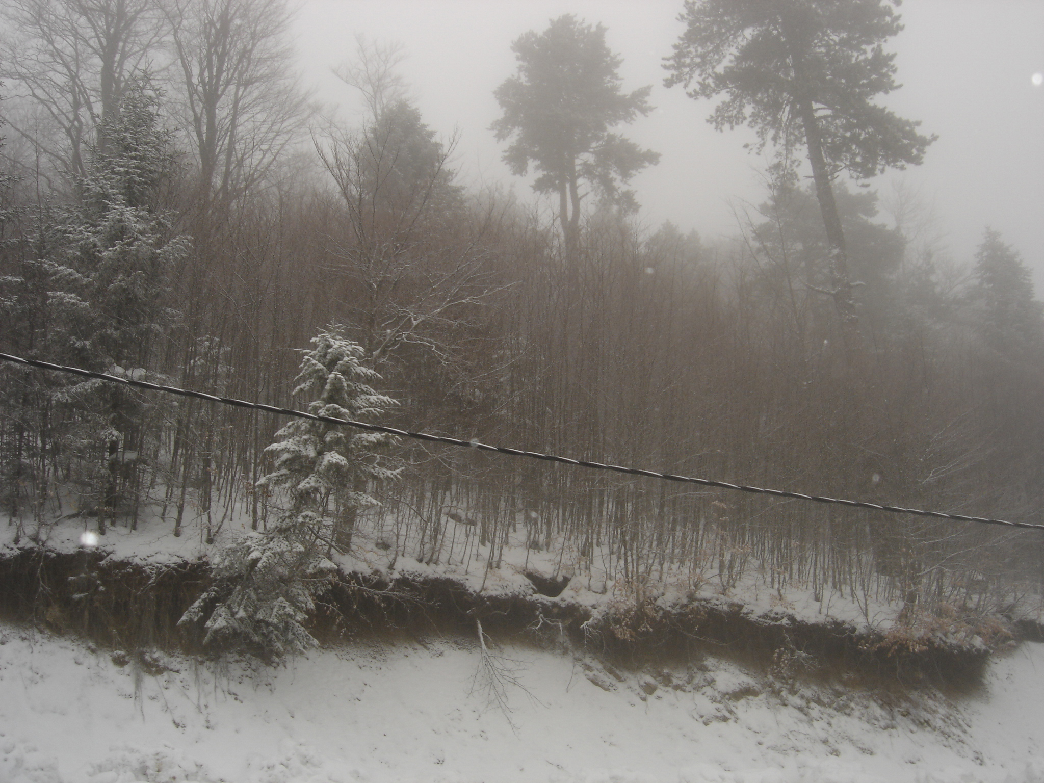 Snow Resort of Elatochori, Pieria.